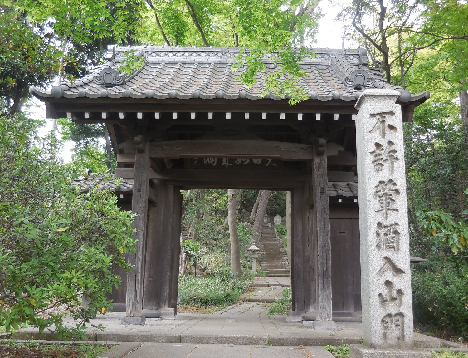 Old Gate in Gotoh Museum garden